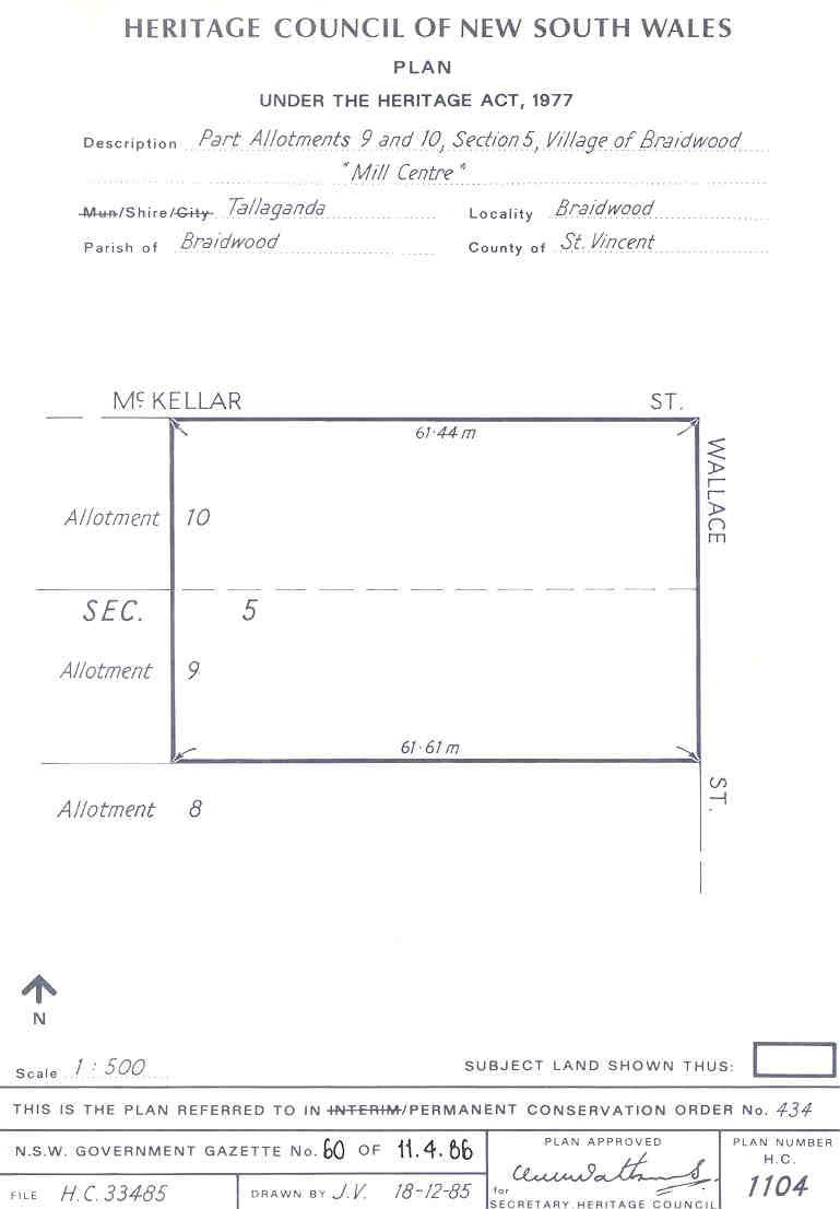 Mill Complex, Braidwood: PCO Plan Number 434